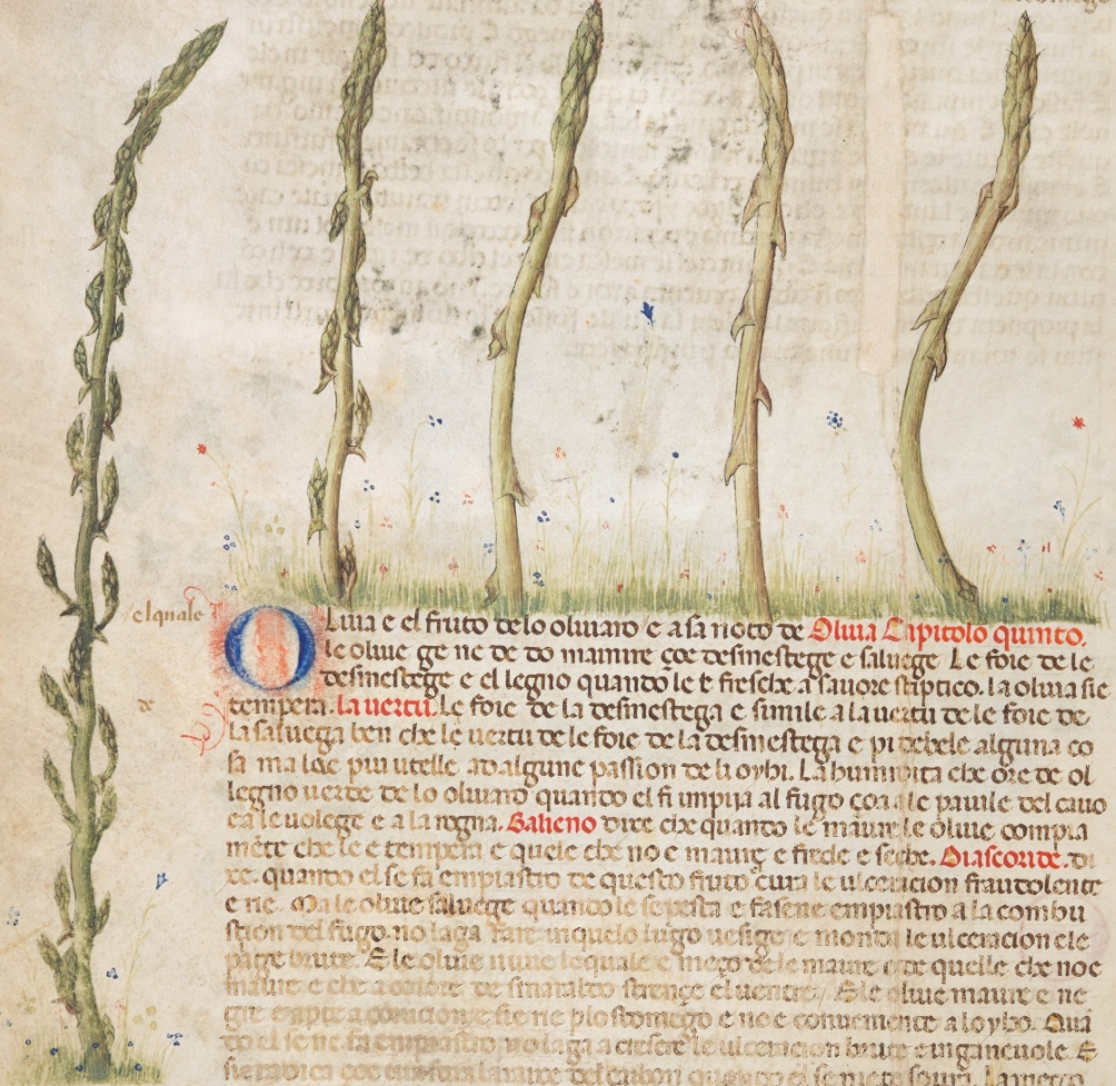 Carrara Herbal, BM Egerton 2020 f. 5v: asparagus